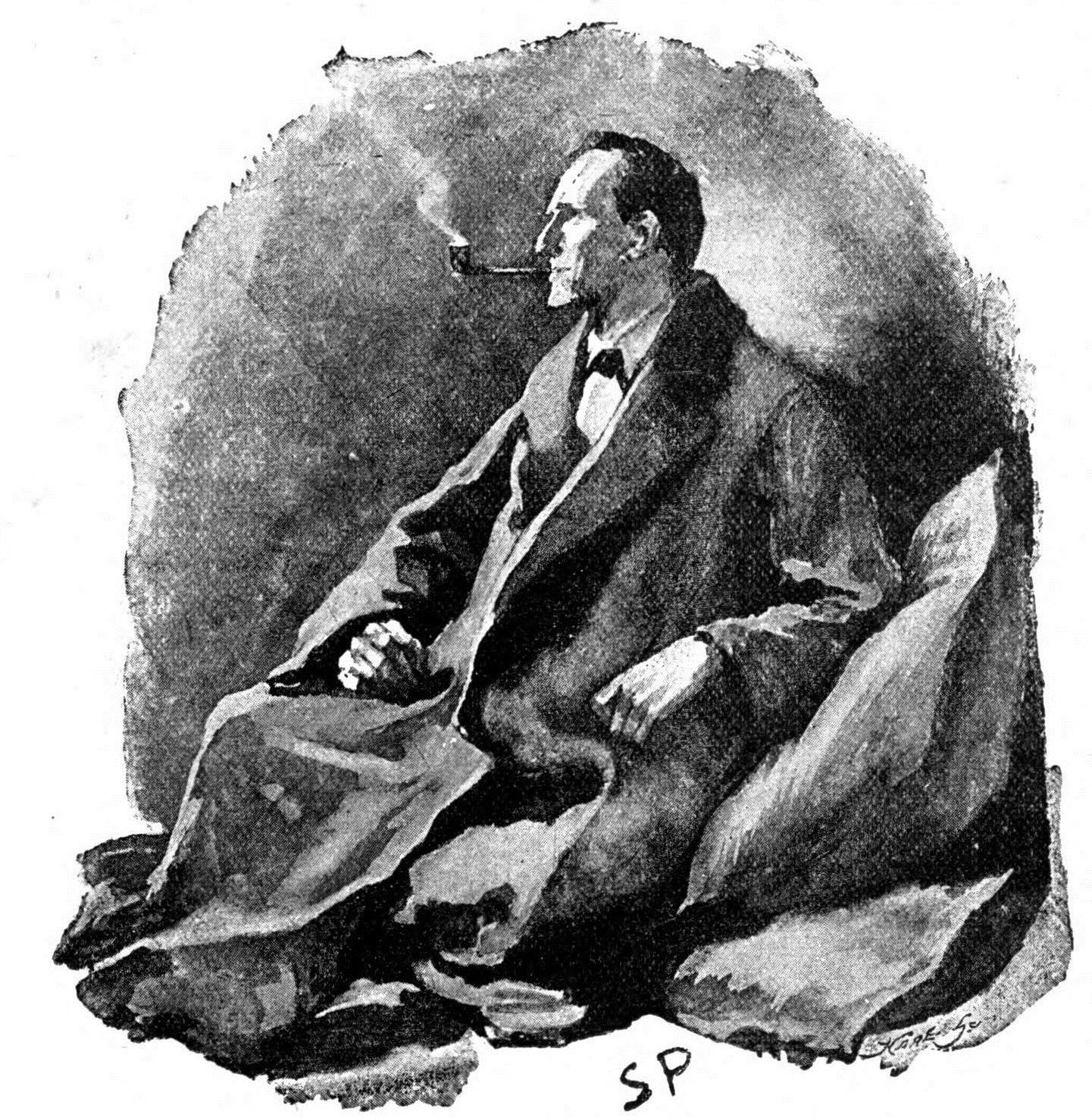 Sherlock Holmes in "The Man with the Twisted Lip", which appeared in The Strand Magazine in December, 1891. Original caption was "THE PIPE WAS STILL BETWEEN HIS LIPS."